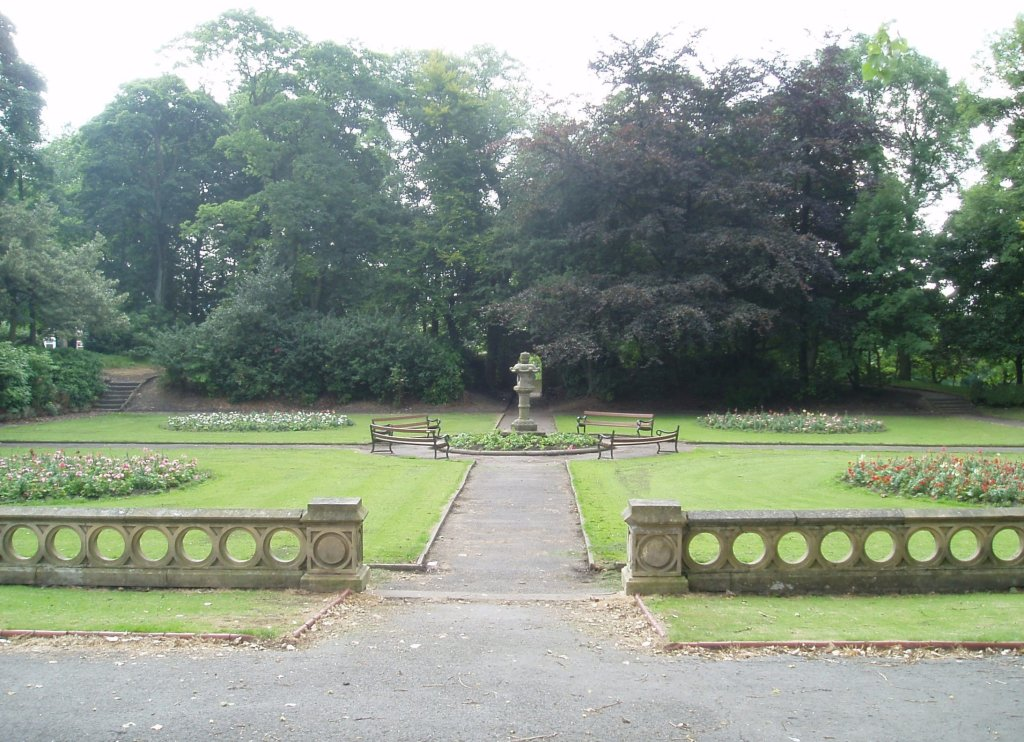 Rhyddings Park (17th August, 2005) - taken by Motor